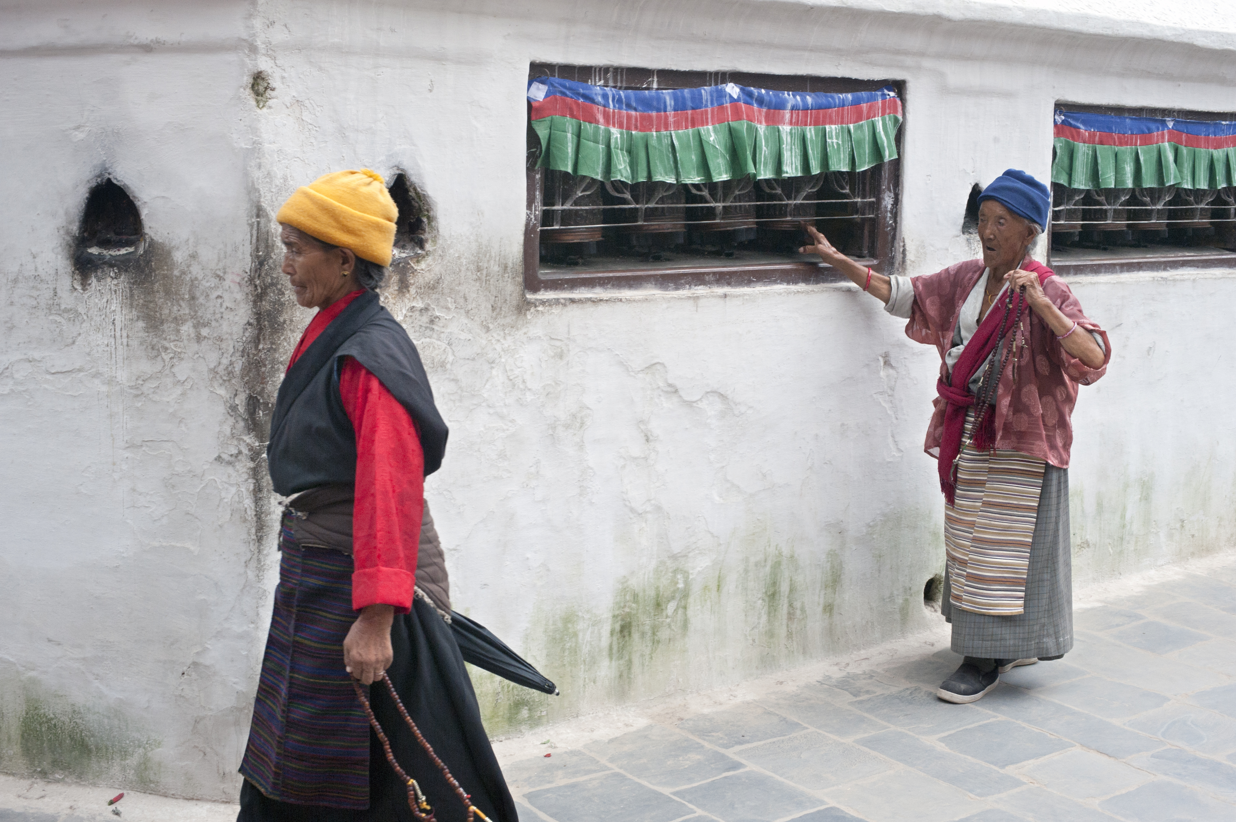 Kora (Buddhist pilgrimage), Boudhanath stupa, Kathmandu, Nepal.